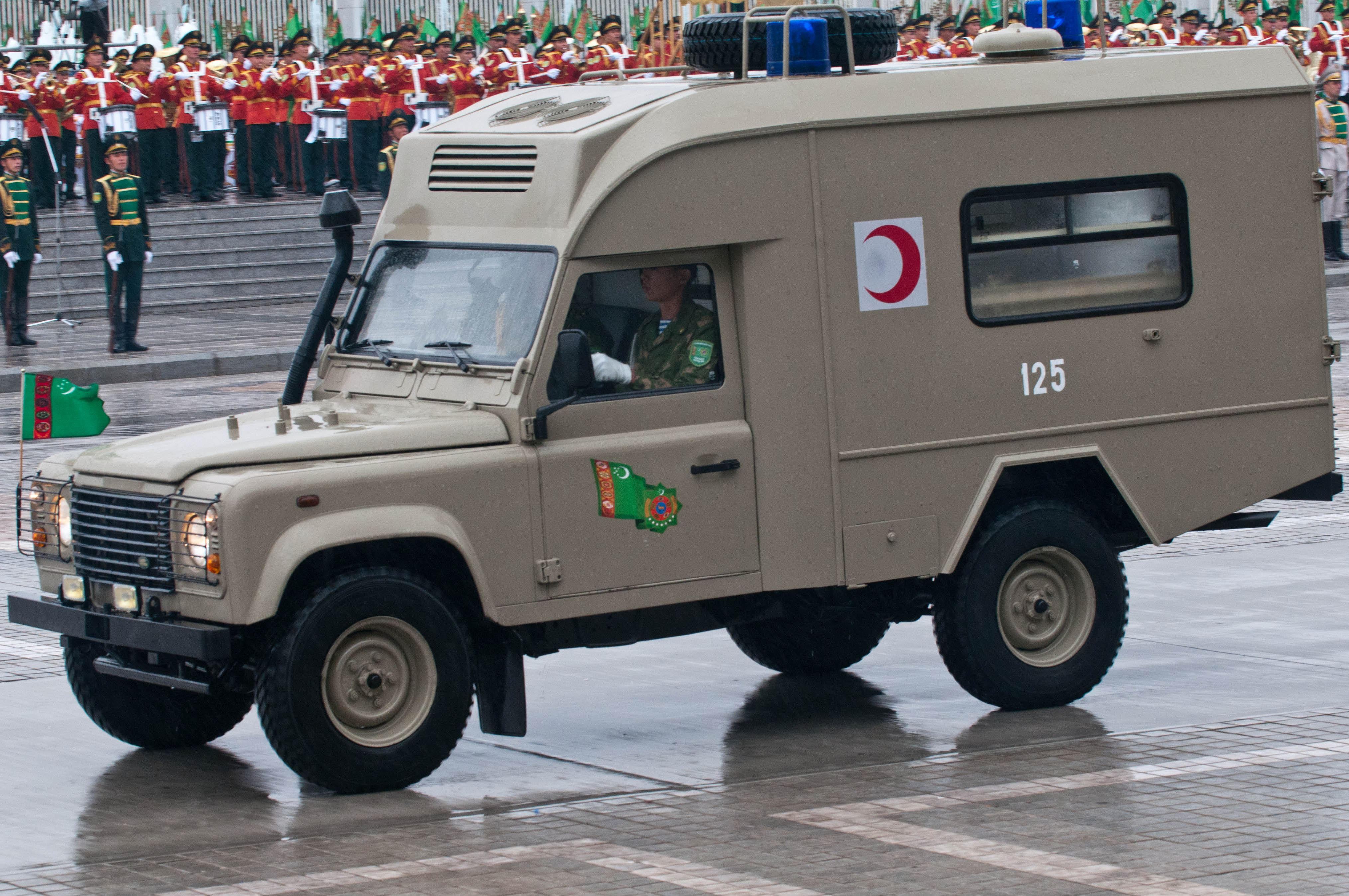 Celebrating the 20th year of independence in Turkmenistan